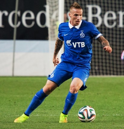 Alexander Büttner